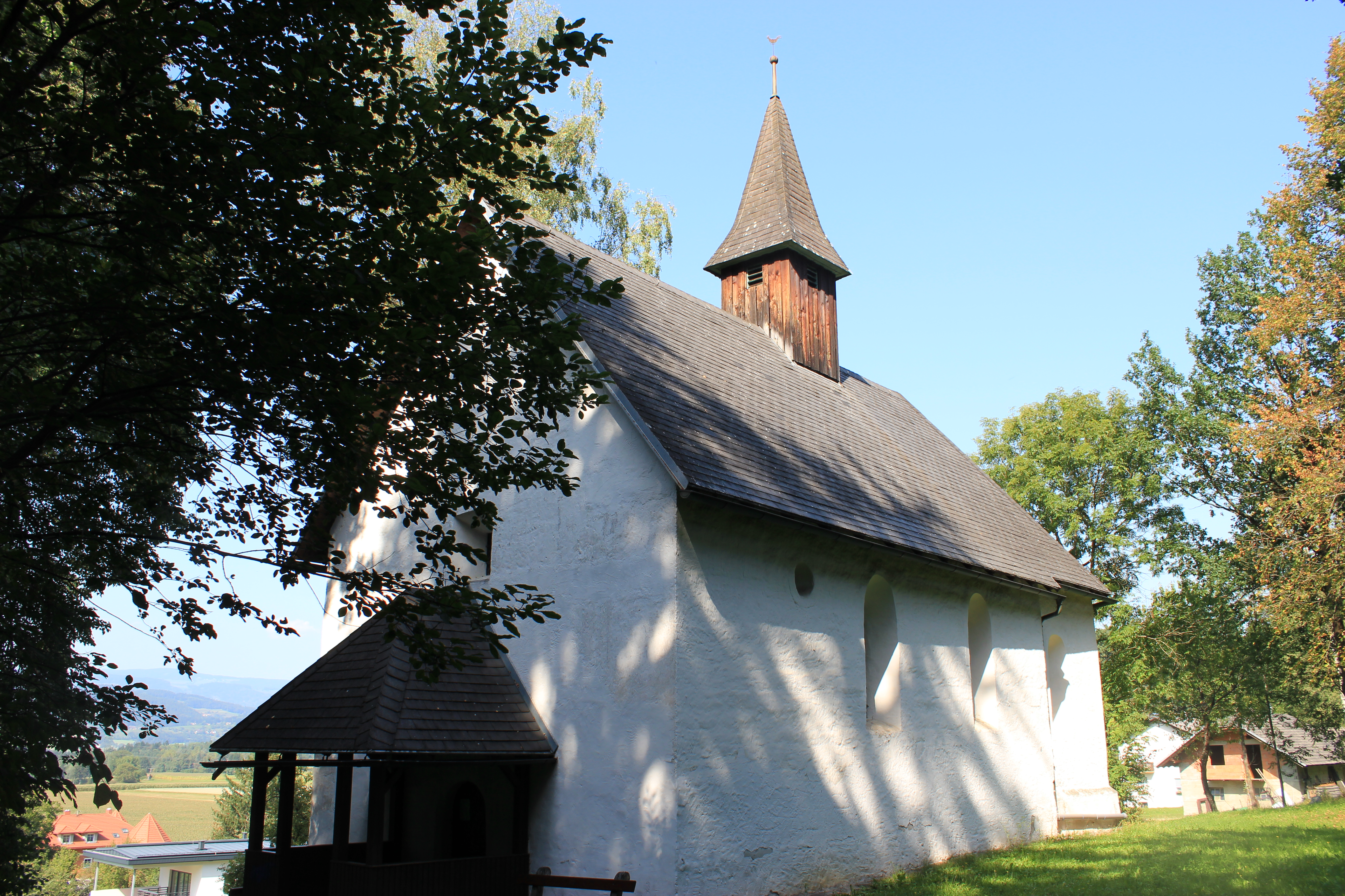 Church in Klopein in the community of Sankt Kanzian am Klopeiner See